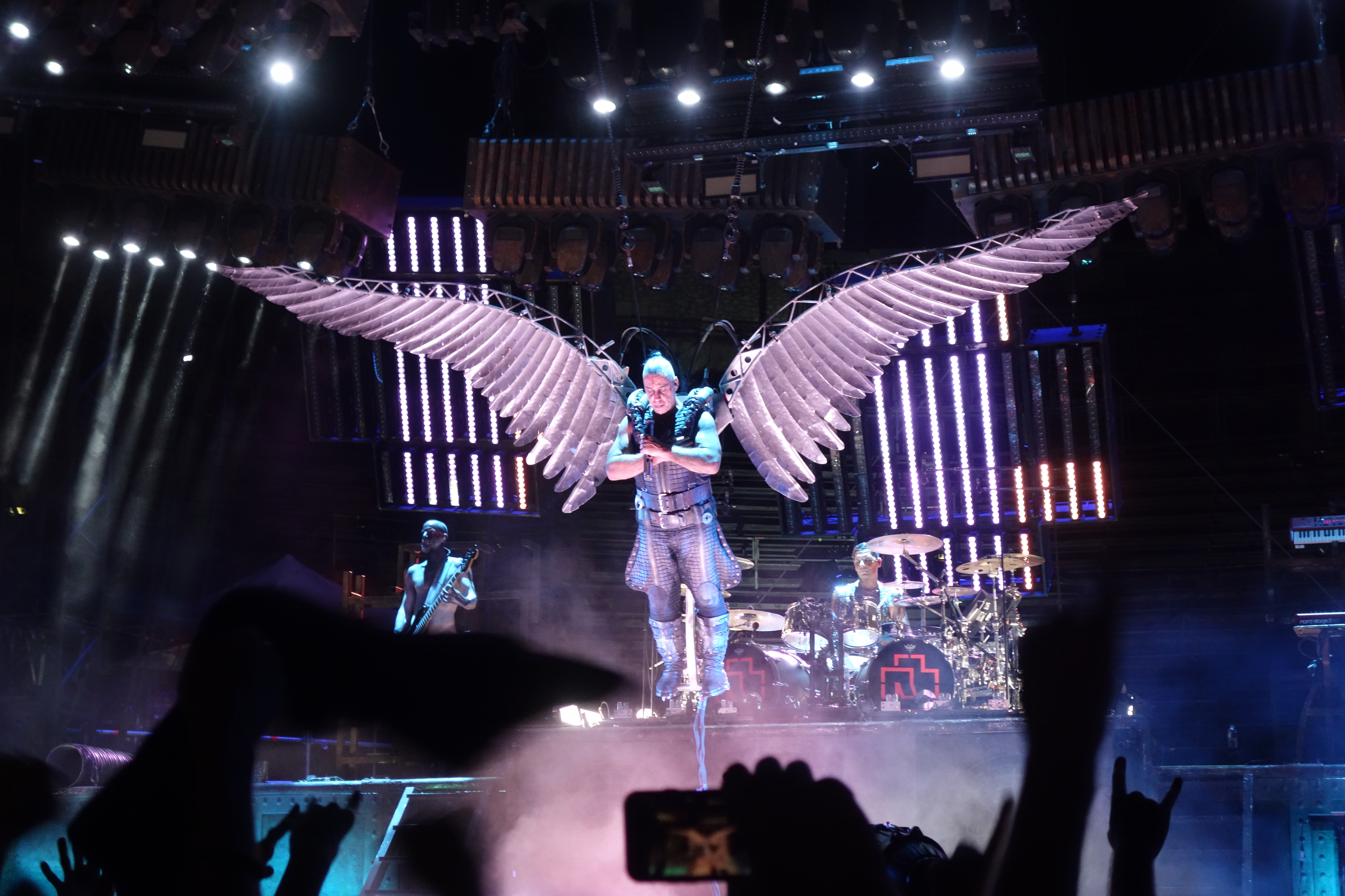 Rammstein in the Arena of Nîmes